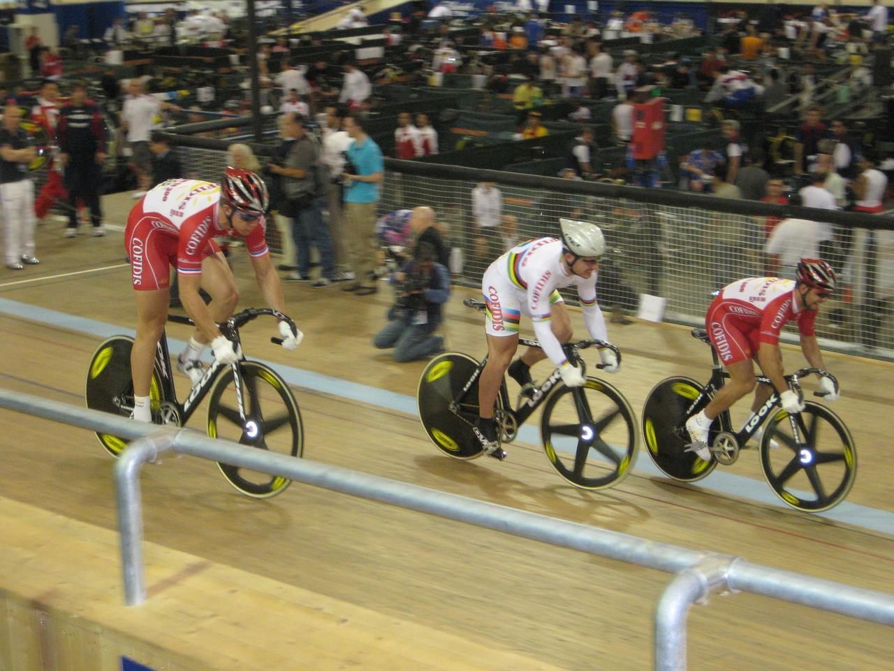 Cofidis (Didier Henriette, Kévin Sireau, and Arnaud Tournant) starts the team sprint of the World Cup in Los Angeles, 18 Jan 2008. They later won the gold medal.